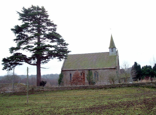 Aconbury Church. Viewed from the North